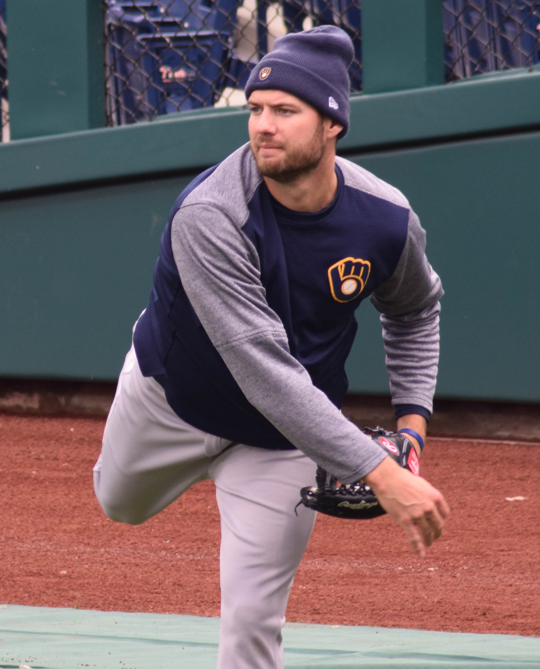 Adrian Houser of the Milwaukee Brewers warms up before a 2019 game at Citizens Bank Park in Philadelphia.